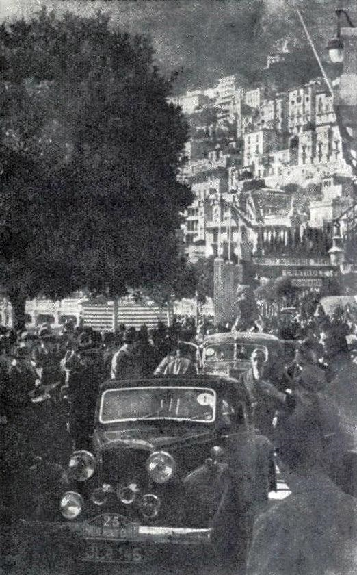 Rallye Monte Carlo 1938, arrival. Entry #25 was a 3,377 ccm Talbot 110 (UK license "DLW 146")[1] entered by W. G. Lockhart [2] (a lieutenant). He had started the race in Stavanger, Norway.